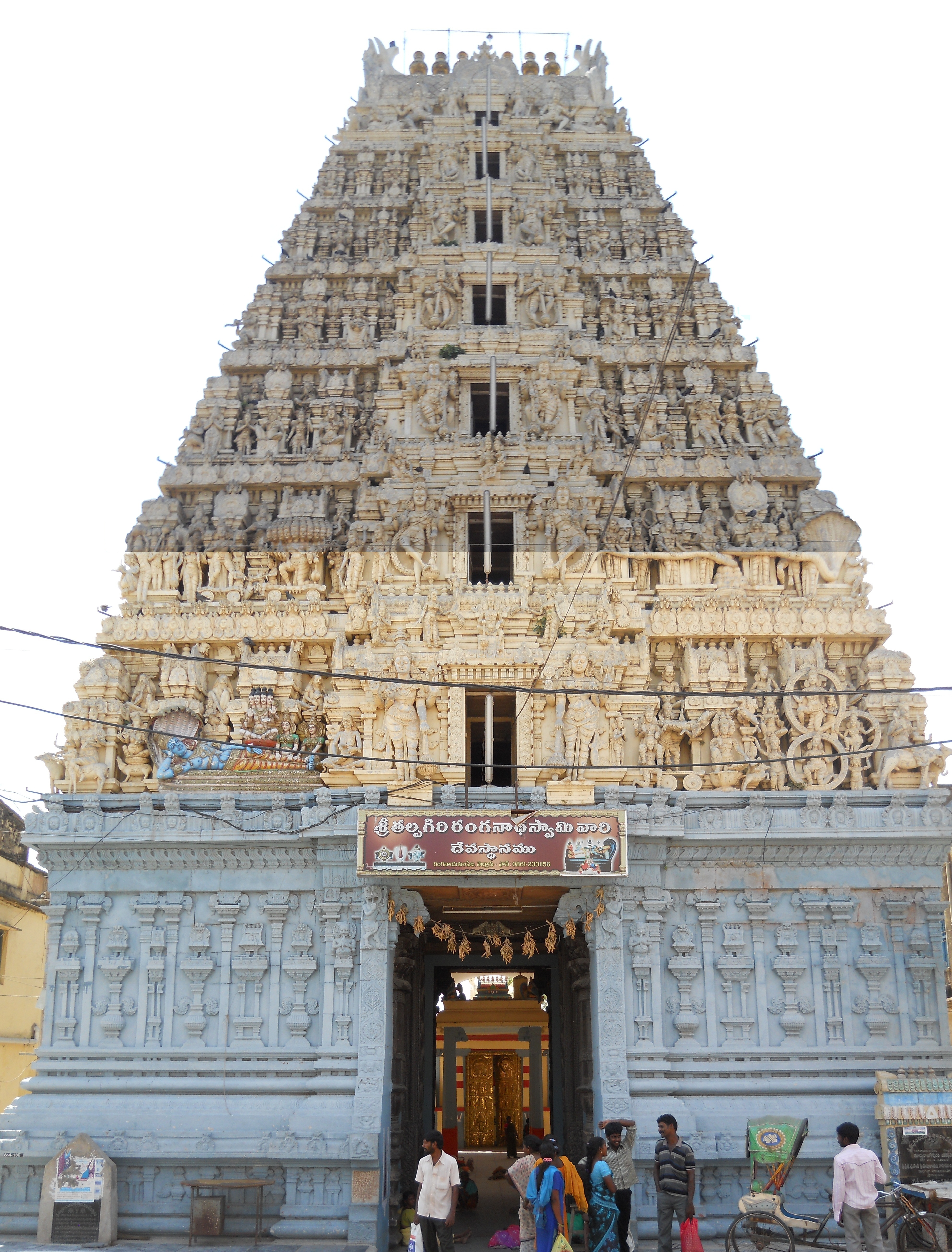 Sri Ranganathaswamy Temple, Galigopuram, Nellore